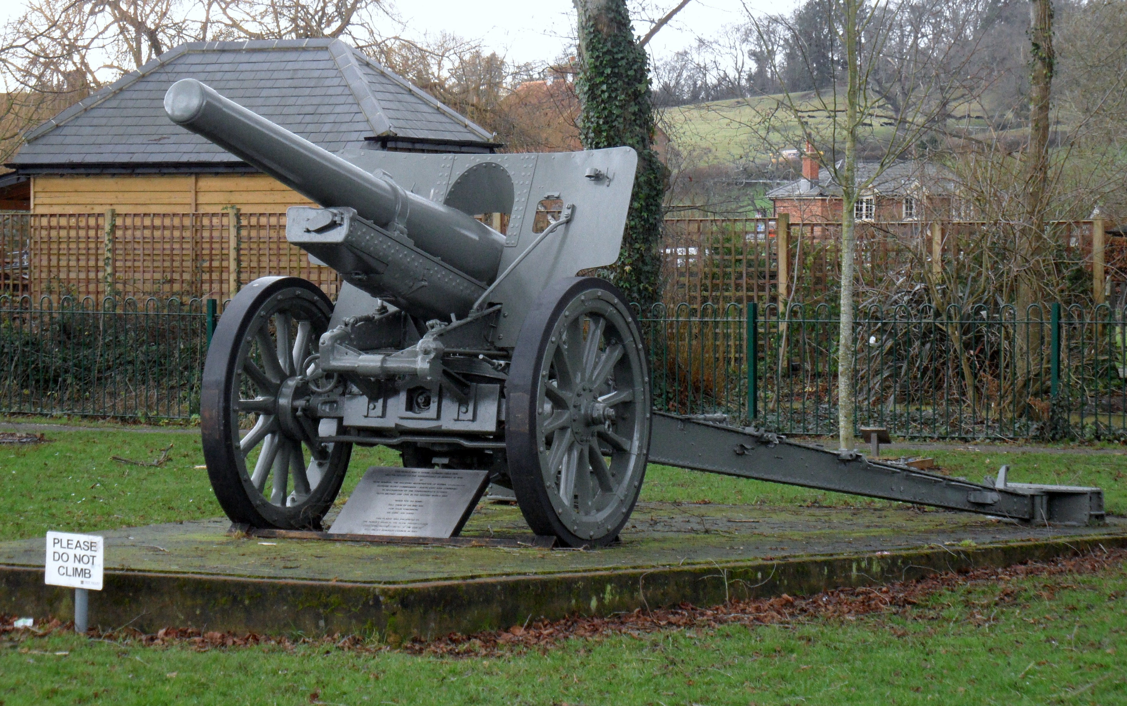 Photograph of Japanese Type 96 15 cm Howitzer in Romsey Park, UK.